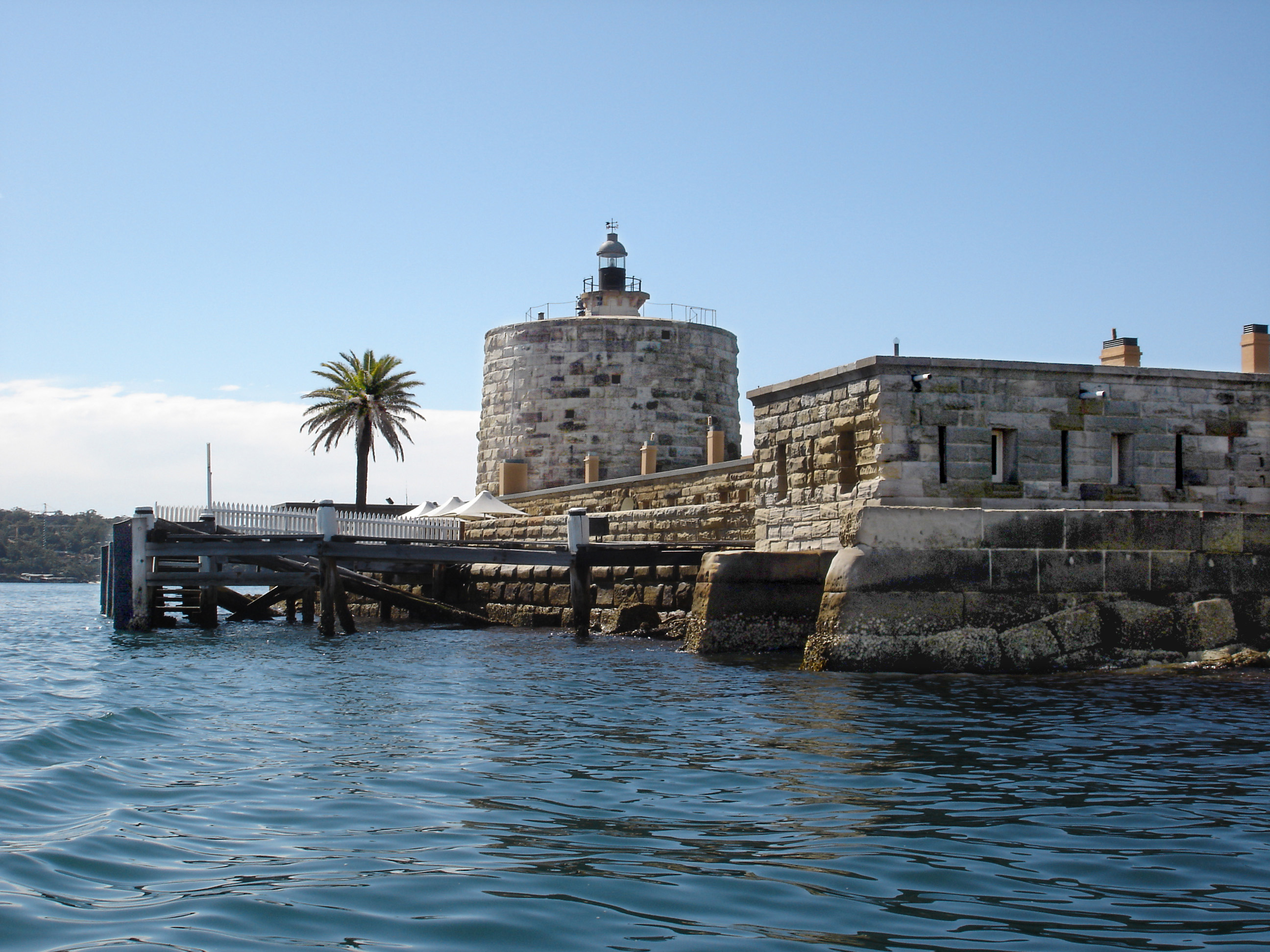 Fort Denison, Sydney Harbour, New South Wales. Picture taken 6/9/06 by user Amitch.